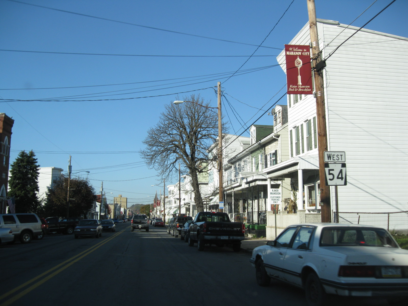 Mahanoy City, Pennsylvania on Pennsylvania State Route 54